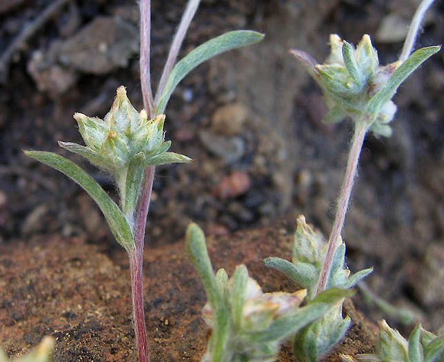 Filago californica. Santa Monica Mountains National Recreation Area, California, USA. Taken at Cheeseboro/Palo Comado Canyons: China Flat Trail, burned chaparral habitat. NPS photo, no copyright.